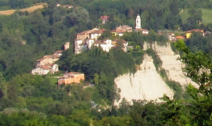 Clavesana (CN): the oldest village of the municipality